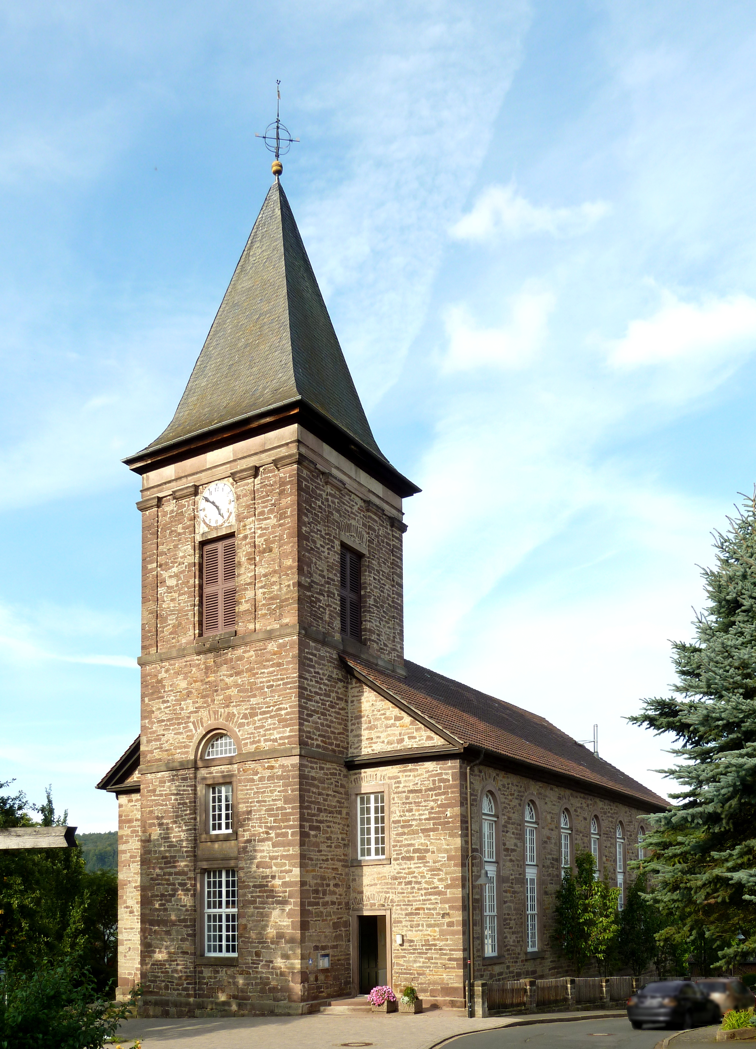 lutheran church in Schönhagen, southern Lower Saxony, built 1827–1831